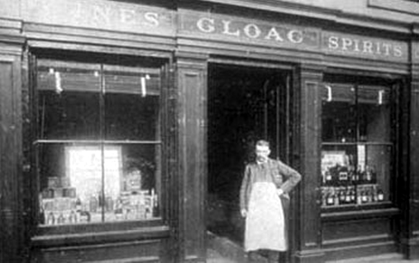 Photo of Wine's Gloag Spirit_shop in Perth, Scotland